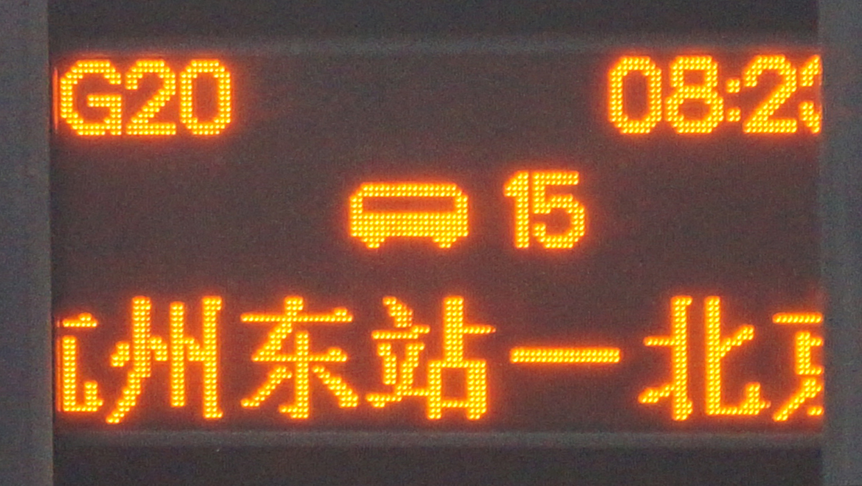 G20 info board 201704. Taken at Hangzhoudong Station